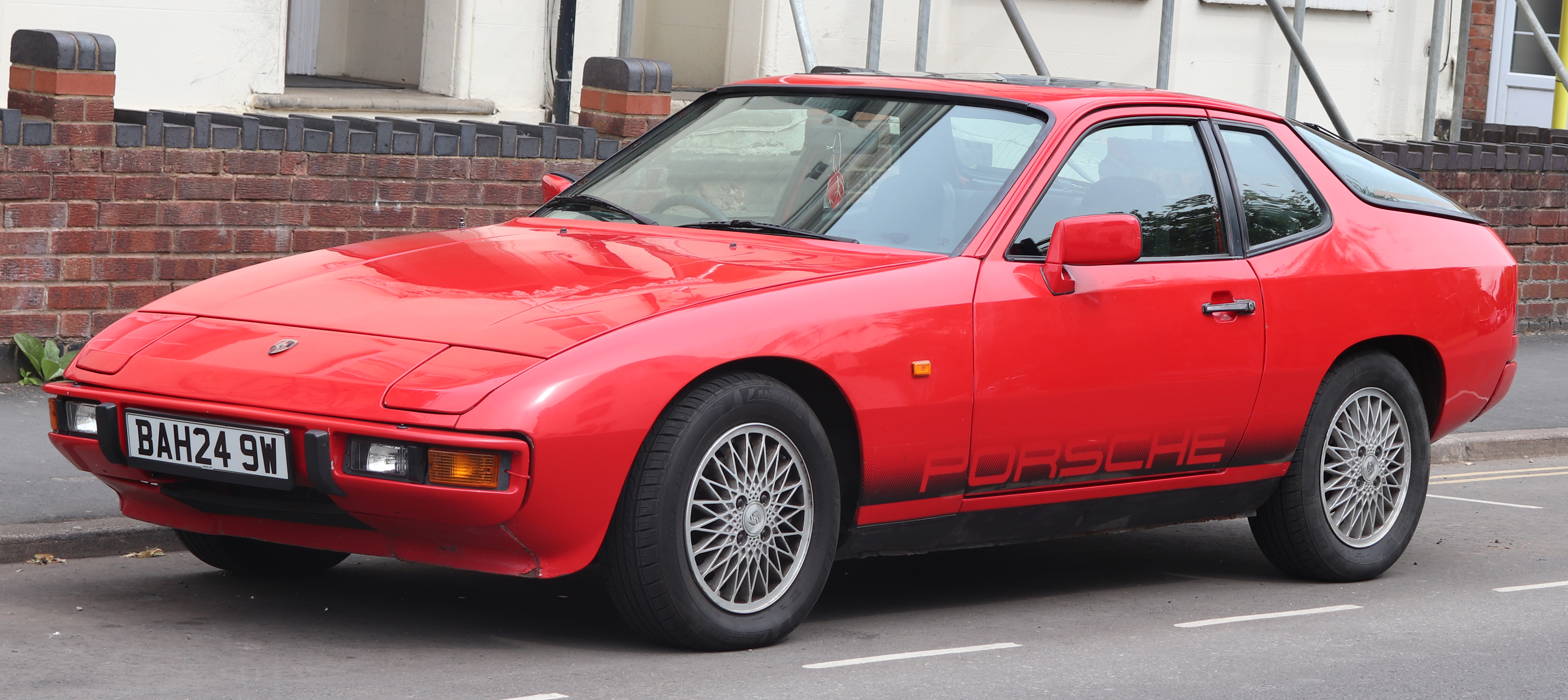 1981 Porsche 924 2.0 Front Taken in Leamington Spa